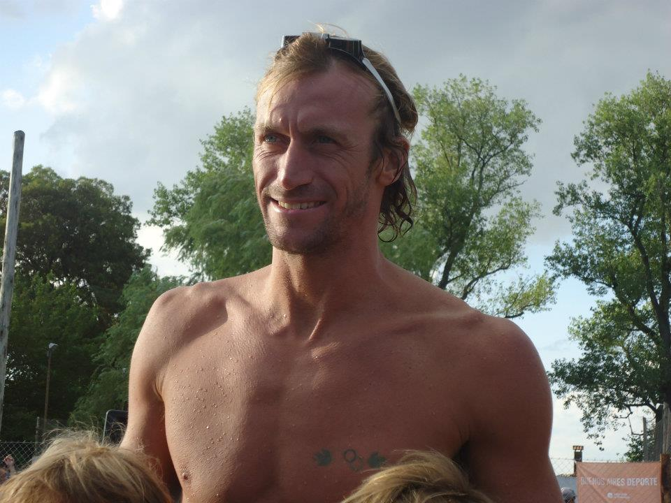 Argentine swimmer José Meolans, during an event of the "Buenos Aires Deporte" program, sponsored by the Secretary of Sports of Buenos Aires Province. Photo taken in 2012.